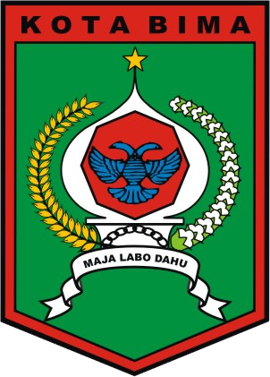 Official Seal of Bima.